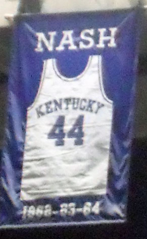 A jersey honoring Cotton Nash hanging in Rupp Arena